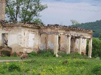 Remains of the Csáky-castle, Almaşu, Transylvania